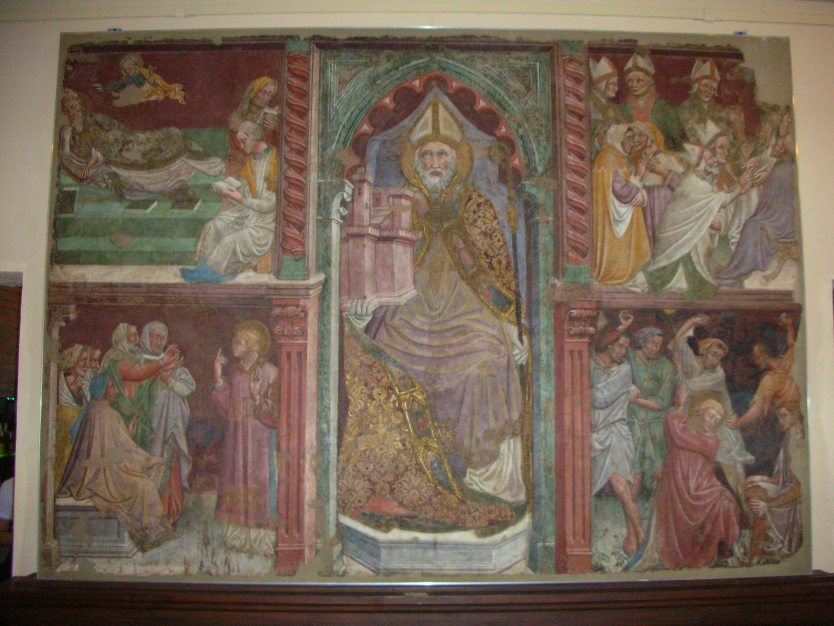 Buildings of Saint Stephen's Basilica in Bologna, Italy, also known as "The Seven Churches". In this picture, a gothic fresco of Saint Petronius surrounded by stories of Saint Stephen, on display within the Martyrium chapel.